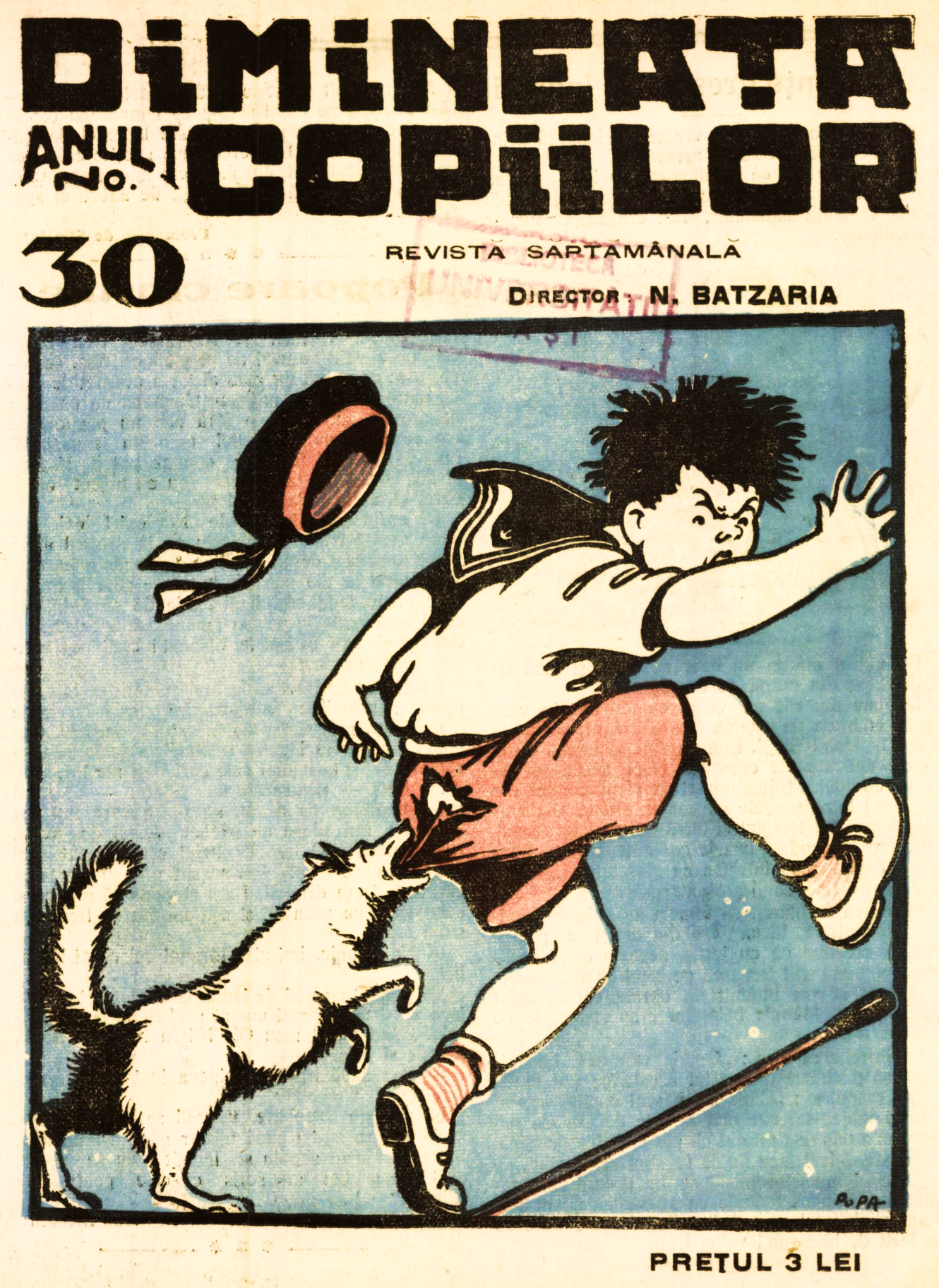 Cover of the Romanian magazine Dimineața Copiilor, children's supplement of Dimineața and Adevărul dailies. Issue 30.